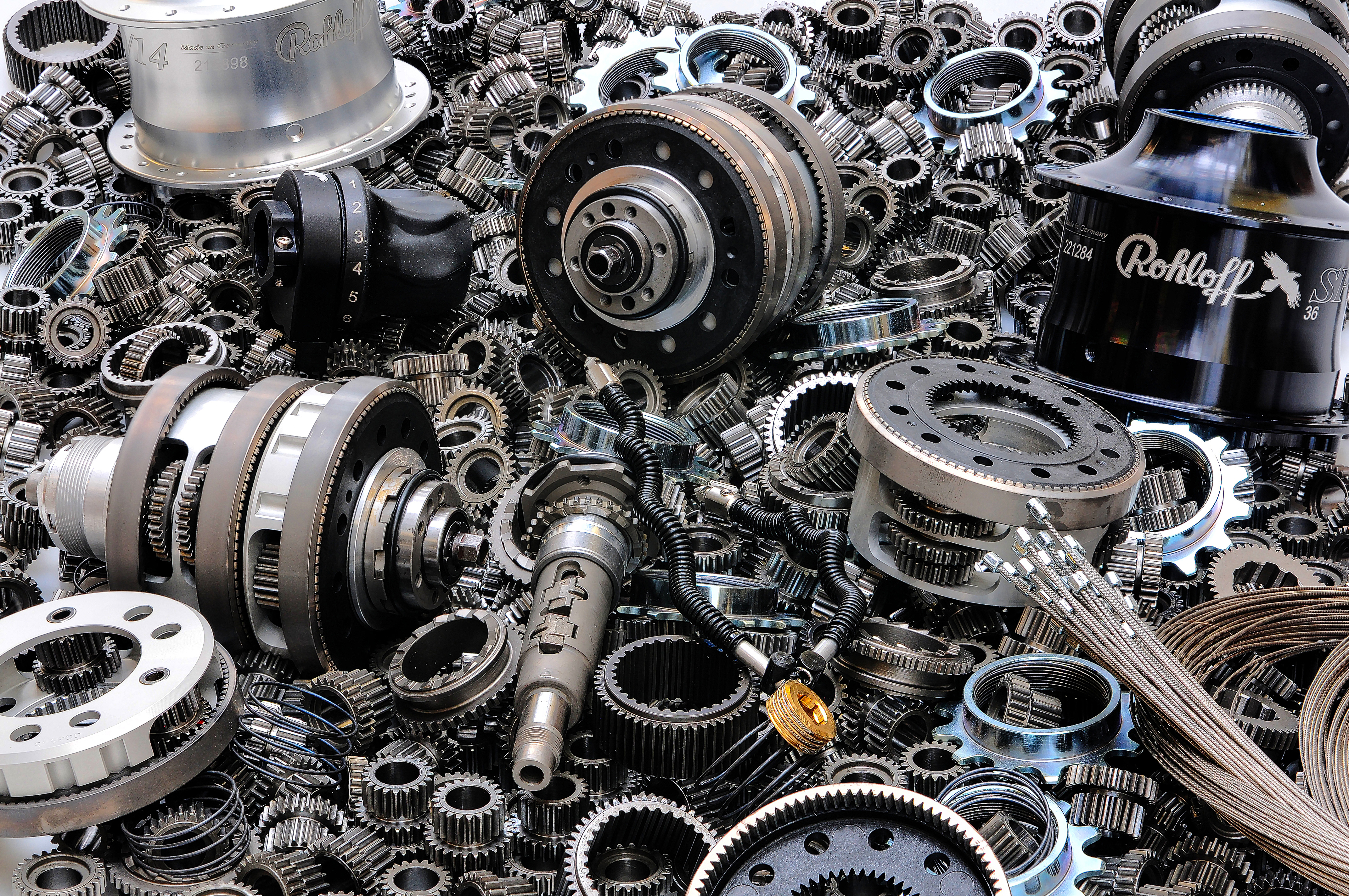 Parts of a bicycle hub Rohloff Speedhub 500/14; example for